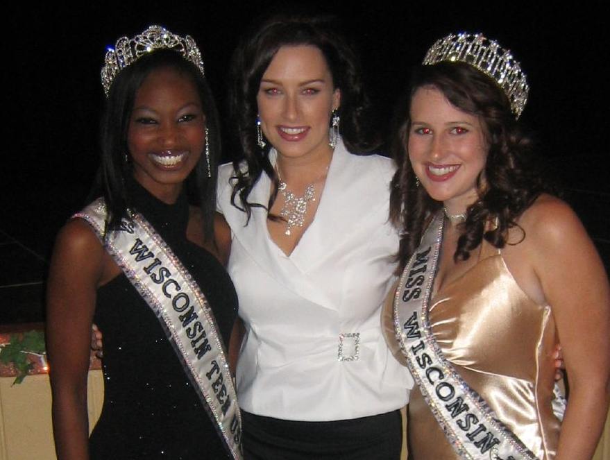 Miss Wisconsin USA 2006, Bishara Dorre Miss Wisconsin USA 2005, Melissa Young Miss Wisconsin USA 2006, Anna Piscitello